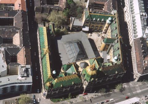 Museum of industrial arts, Budapest, Hungary, aerialphotography